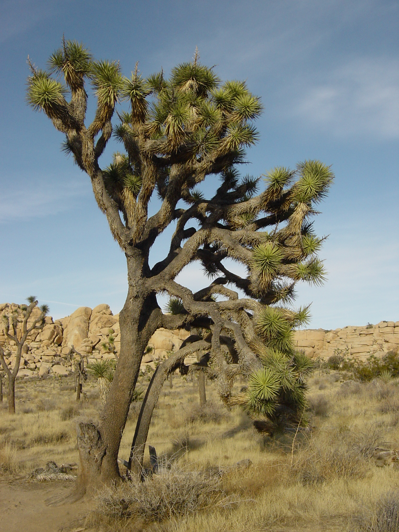 Joshua tree in the Joshua Tree National Park